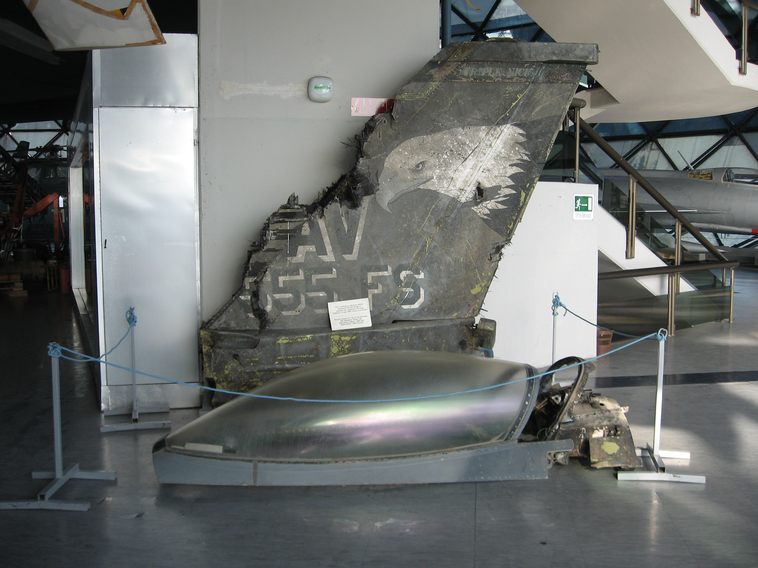 Lockheed-Martin F-16C